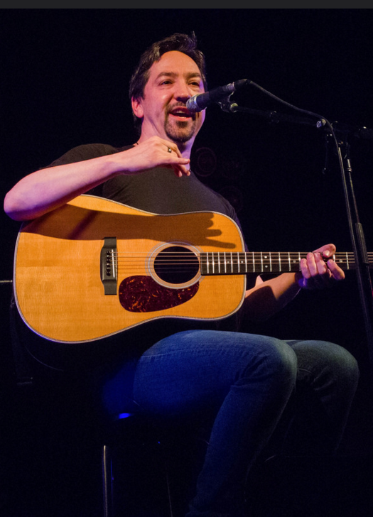 Jon Toogood's second night of his Planet of Sound solo acoustic tour at The Tuning Fork, Auckland, New Zealand. 9/10/2015